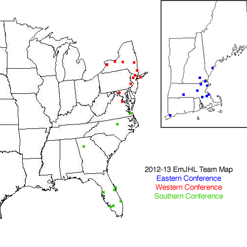 Map locating all the teams that will participate in the upcoming Empire Junior Hockey League season.